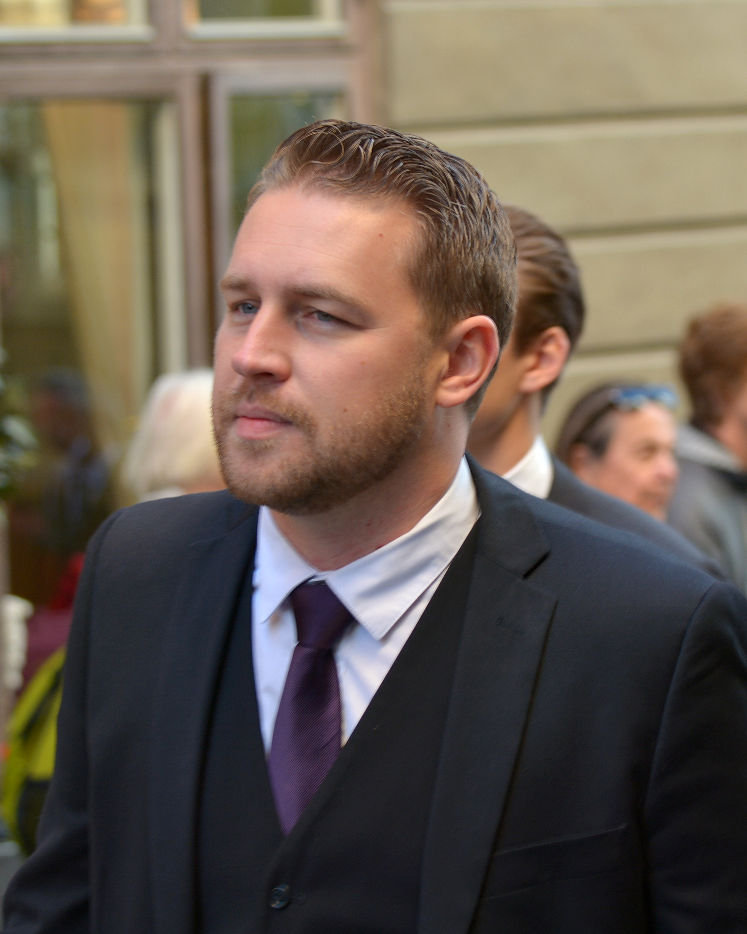 Mattias Karlsson, member of the Riksdag for the Sweden Democratic Party.